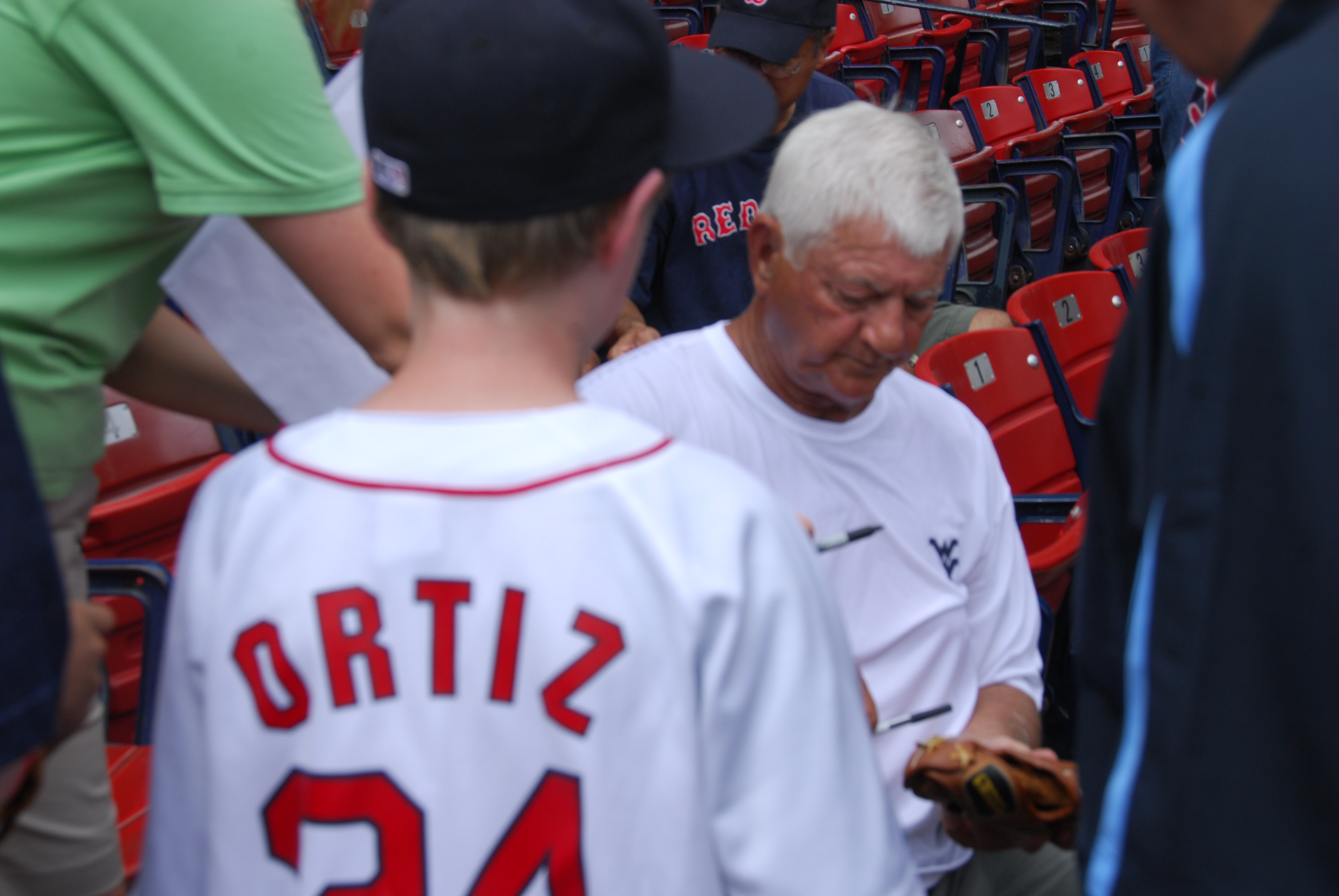 Carl Yastrzemski, former Red Sox player, signing autograph for a fan at Fenway Park, Boston.